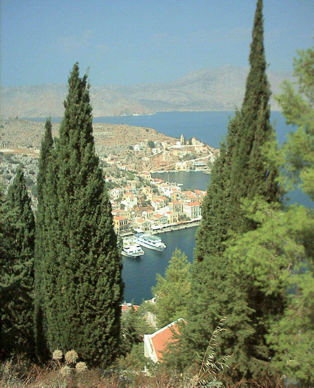 Symi, Greece (Yialos, Symi Harbour, seen from Chorio) Tree at left is Cupressus sempervirens Author: Wojsyl